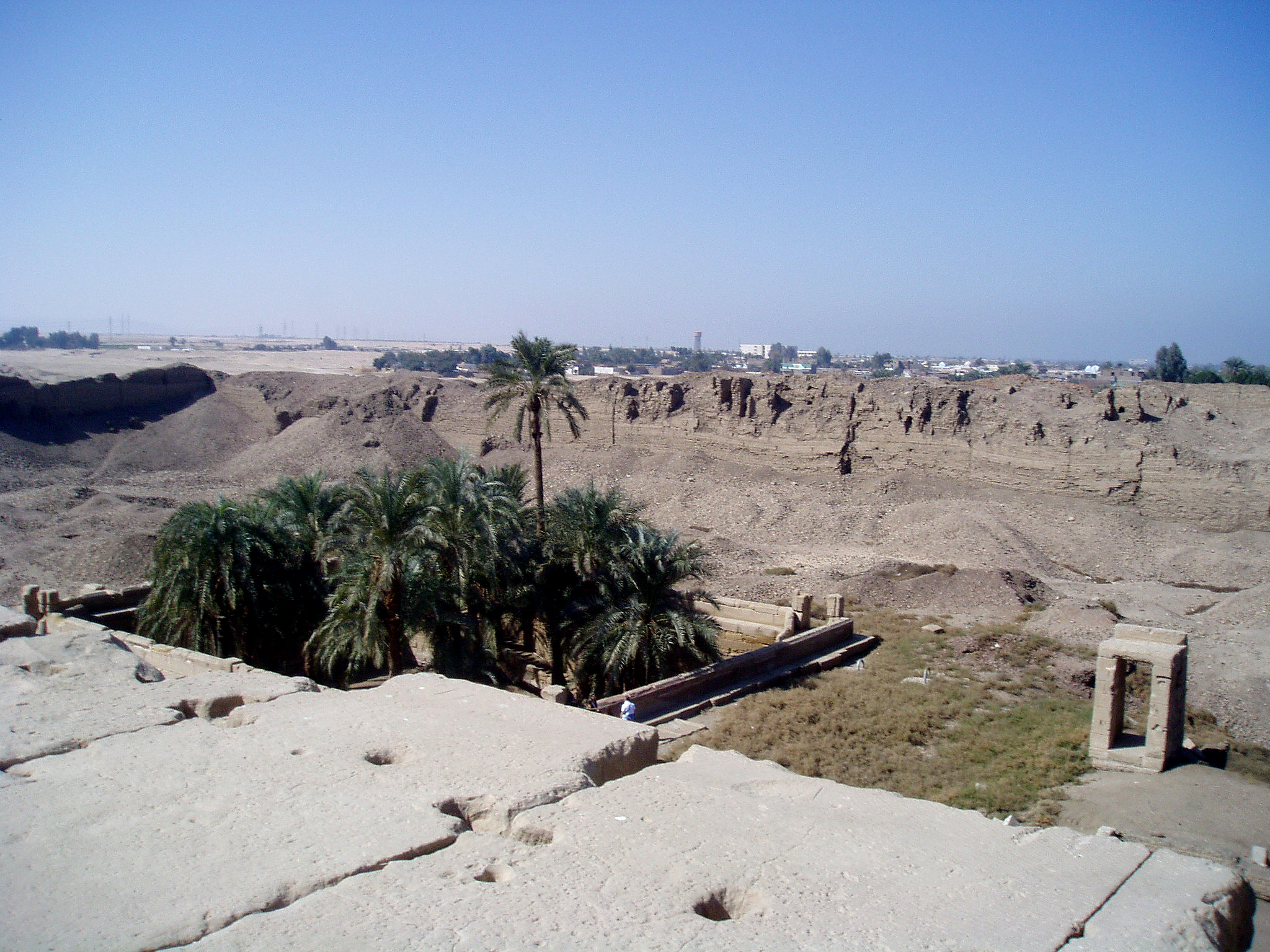 The holy lake of the Dendera Temple